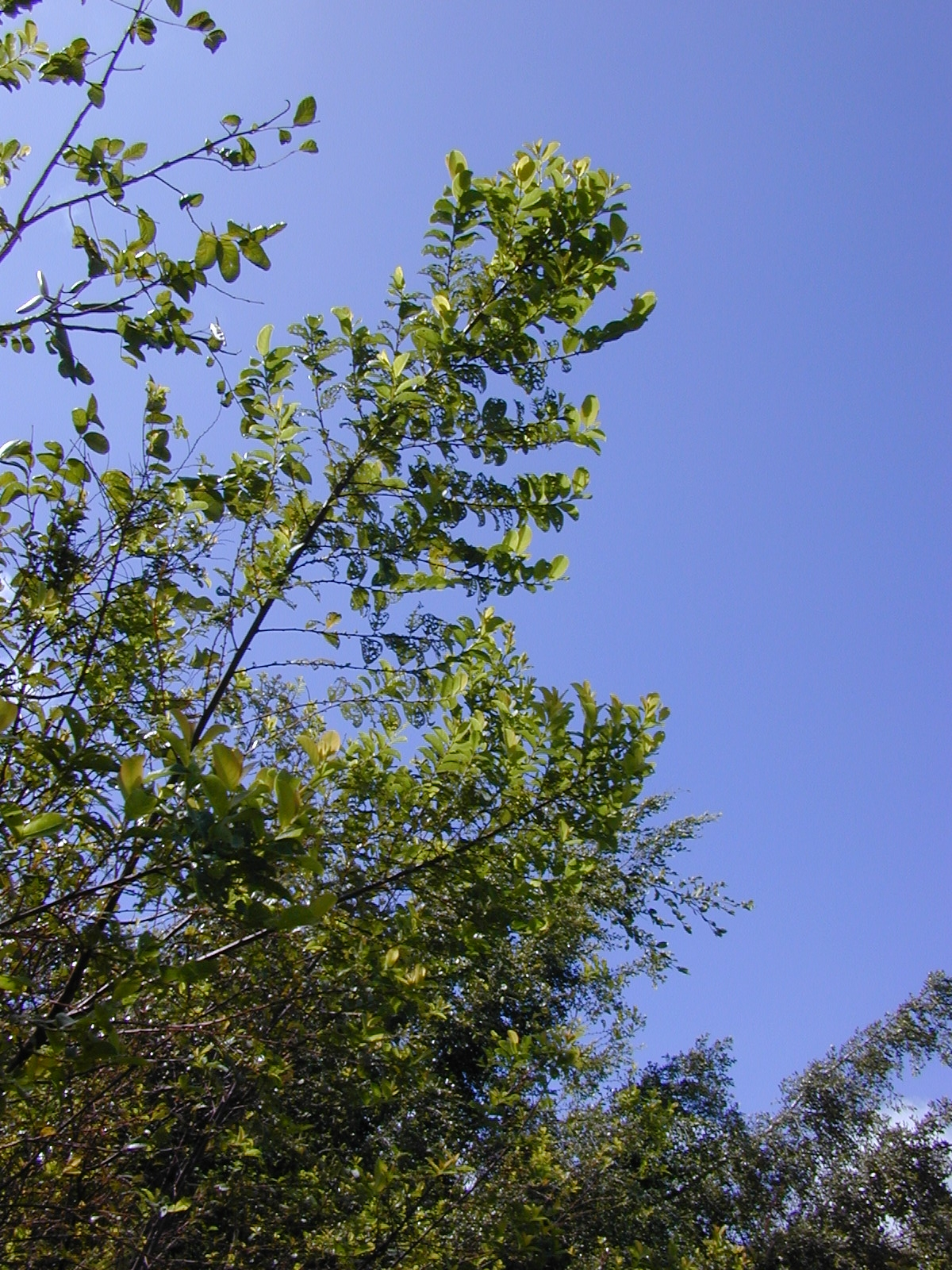 Flueggea virosa (branch). Location: Maui, Haiku